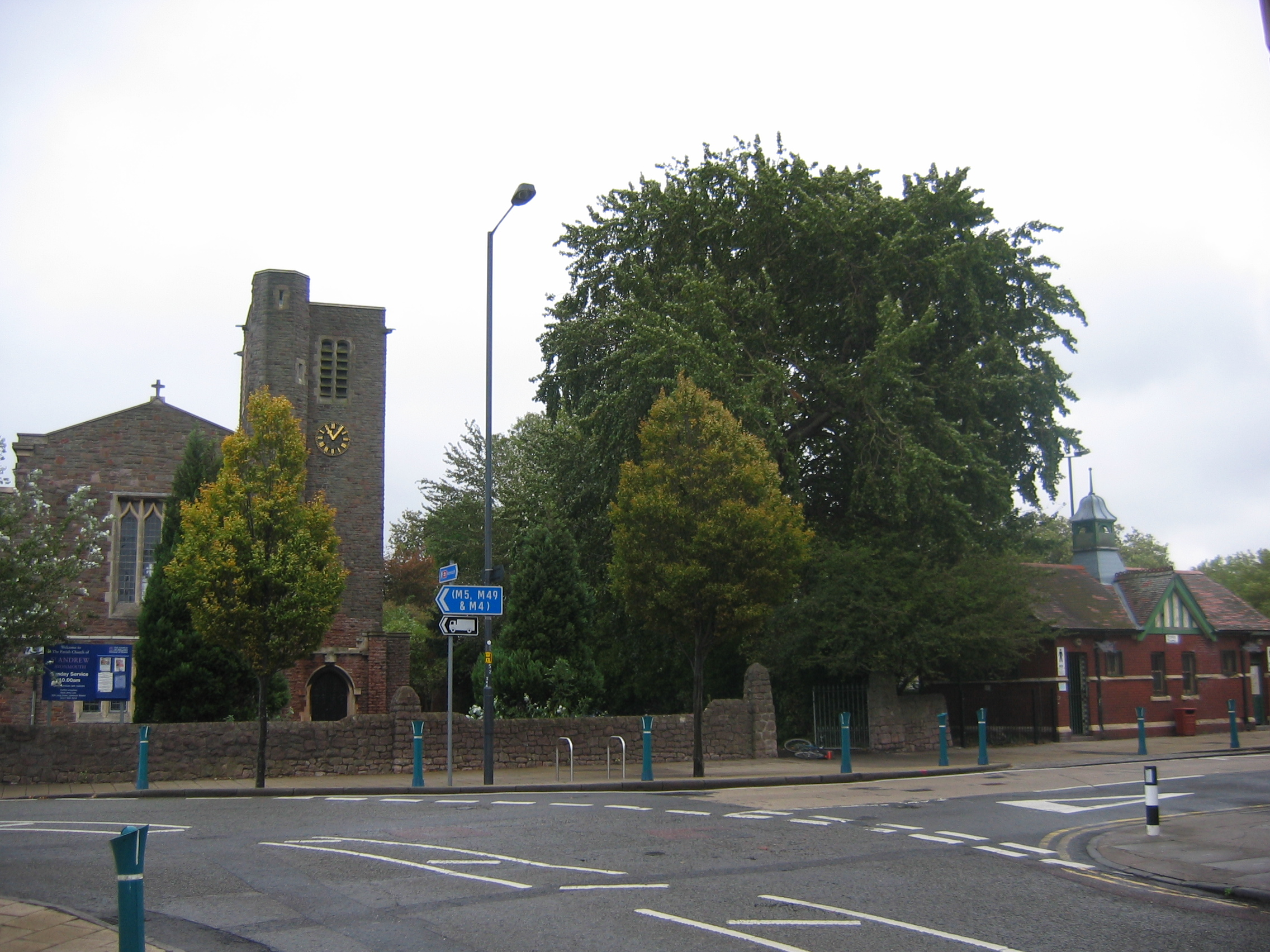 Junction of Gloucester Road and Avonmouth Road, Avonmouth, Bristol, with St Andrew's parish church on the left and the public library on the right